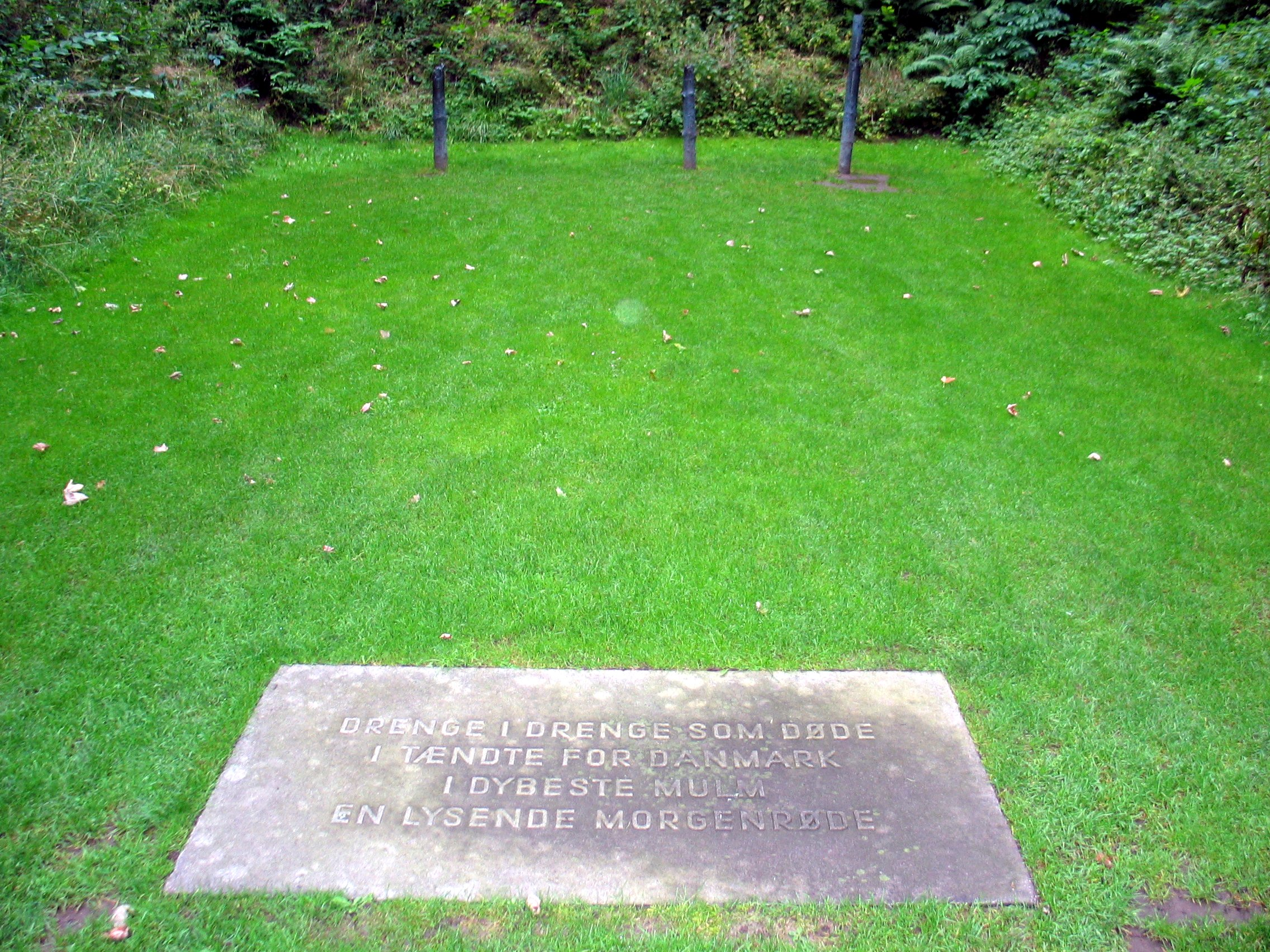 Mindelunden i Ryvangen. Firing range